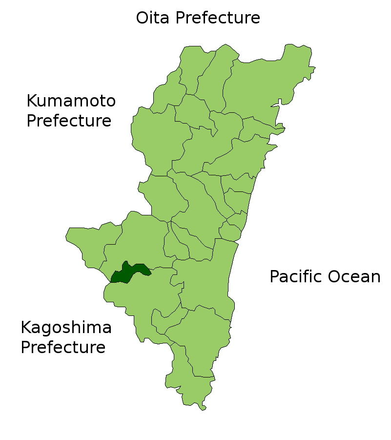 Location Map of Takaharu in Miyazaki Prefecture, Japan